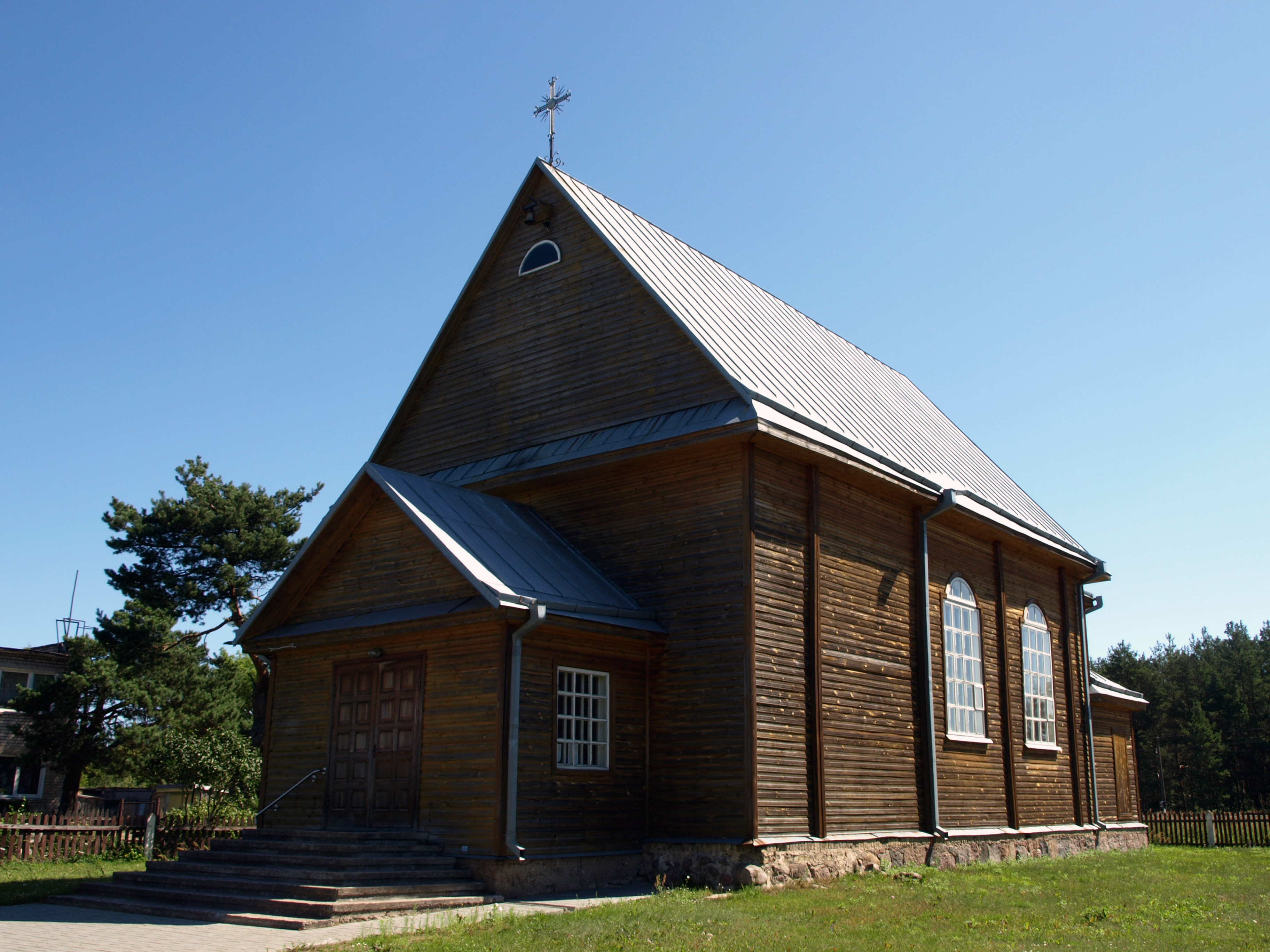 Bezdonys church, Vilnius district, Lithuania